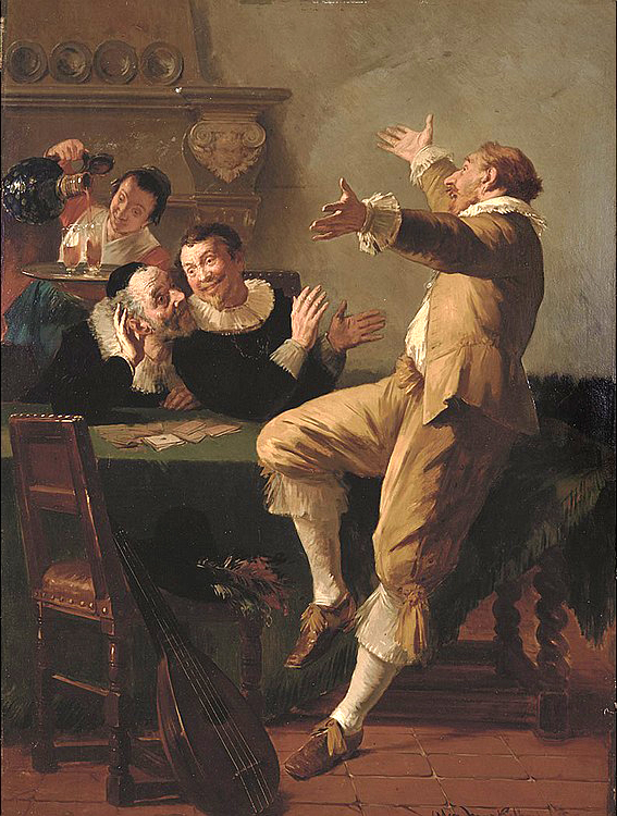 A game of cards